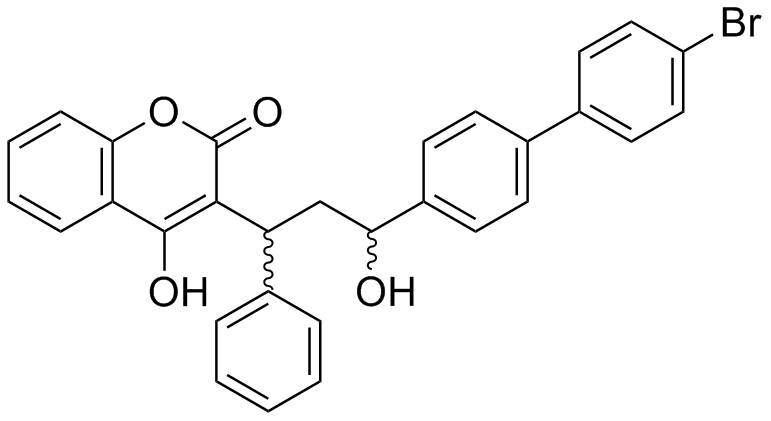 (1RS,3RS;1RS,3SR)-Bromadiolone, a second generation coumarin anticoagulant.